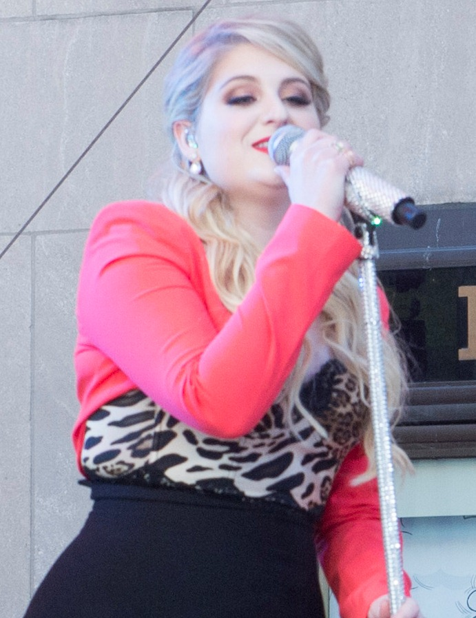 NEW YORK (May 22, 2015) - Sailors, Marines and Coast Guardsmen watch Meghan Trainor perform at a live broadcast of The Today Show during Fleet Week New York (FWNY). FWNY, now in its 27th year, is the city's time-honored celebration of the sea services. It is an unparalleled opportunity for the citizens of New York and the surrounding tri-state area to meet Sailors, Marines and Coast Guardsmen, as well as witness firsthand the latest capabilities of today's maritime services. (U.S. Navy photo by Mass Communication Specialist 3rd Class Michael J. Lieberknecht/Released)